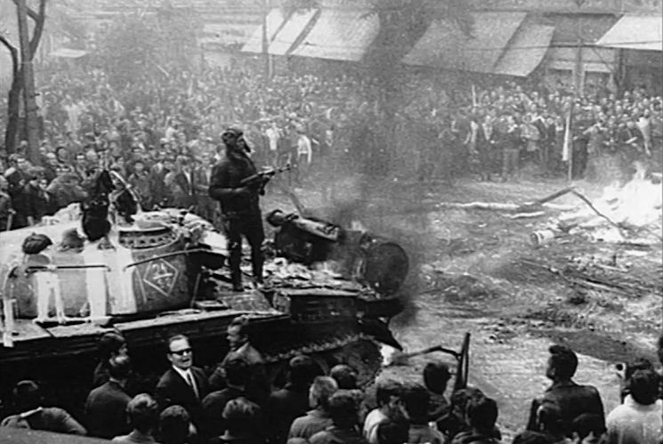 Photograph of a Soviet tank that caught fire after facing the resistance of the people of Prague.